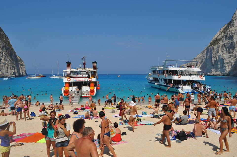 Navagio Beach in Greece (Summer 2013), the beach is full of tourists!